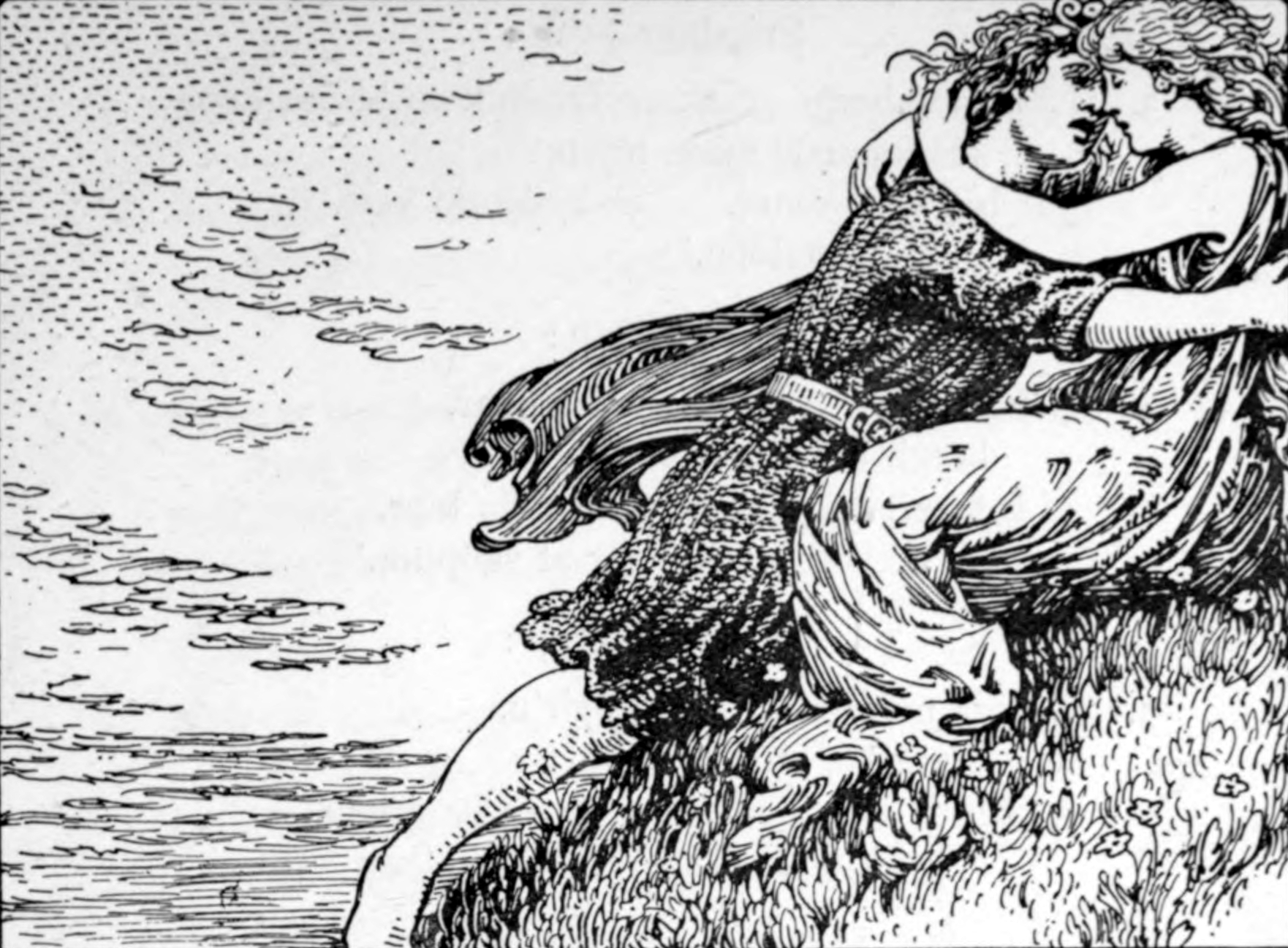 Svipdagr and Menglöð hug. The list of illustrations in the front matter of the book gives this one the title Day-spring finds Menglöd.